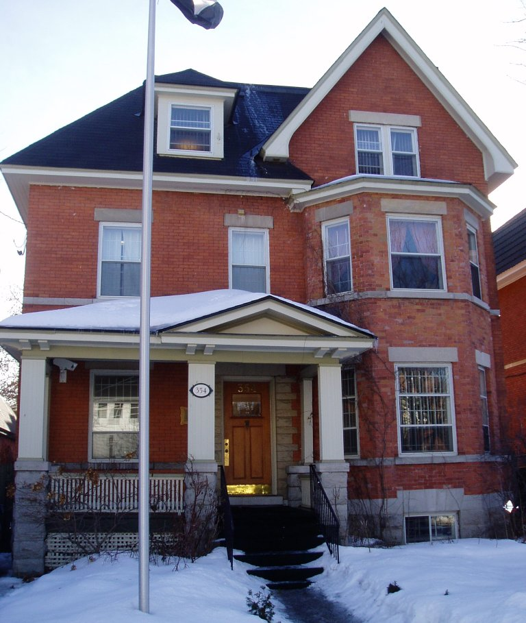 Embassy of Sudan in Ottawa. Taken by SimonP in January 2005